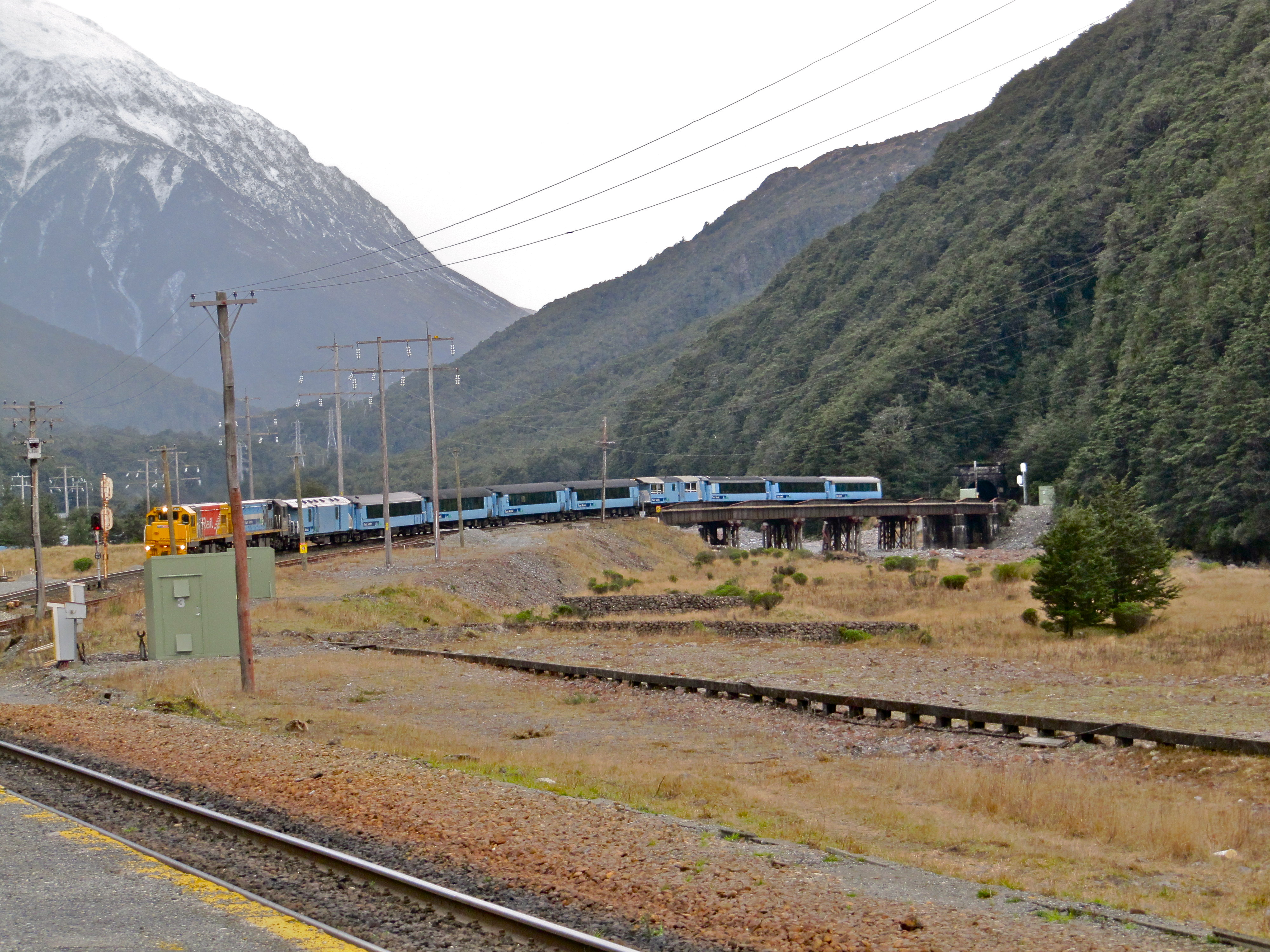 Prior to introduction of AK cars.